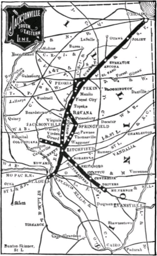 Map of the Jacksonville South Eastern Line